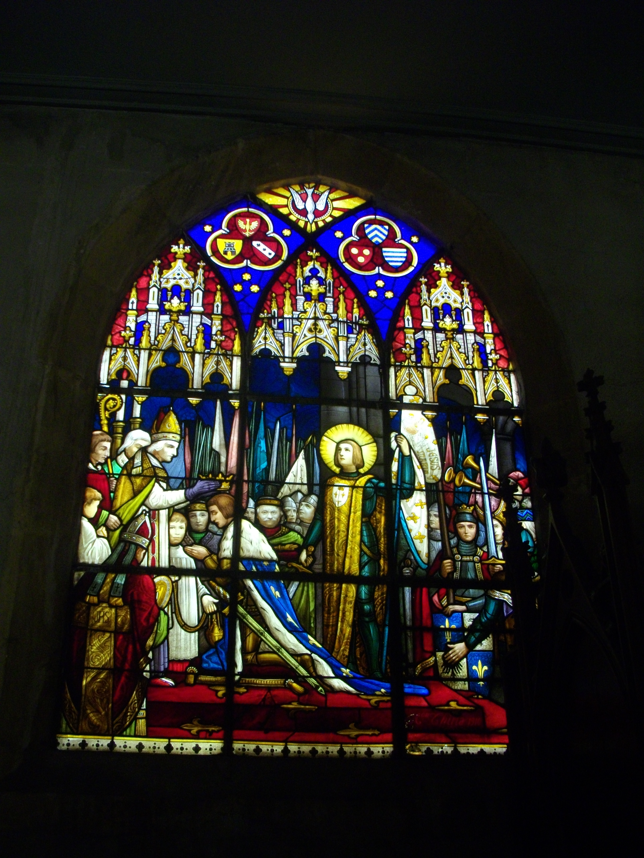 Stained glass window of Saint Martin church of Metz (Moselle, France). Joan of Arc and Charles VII of France .